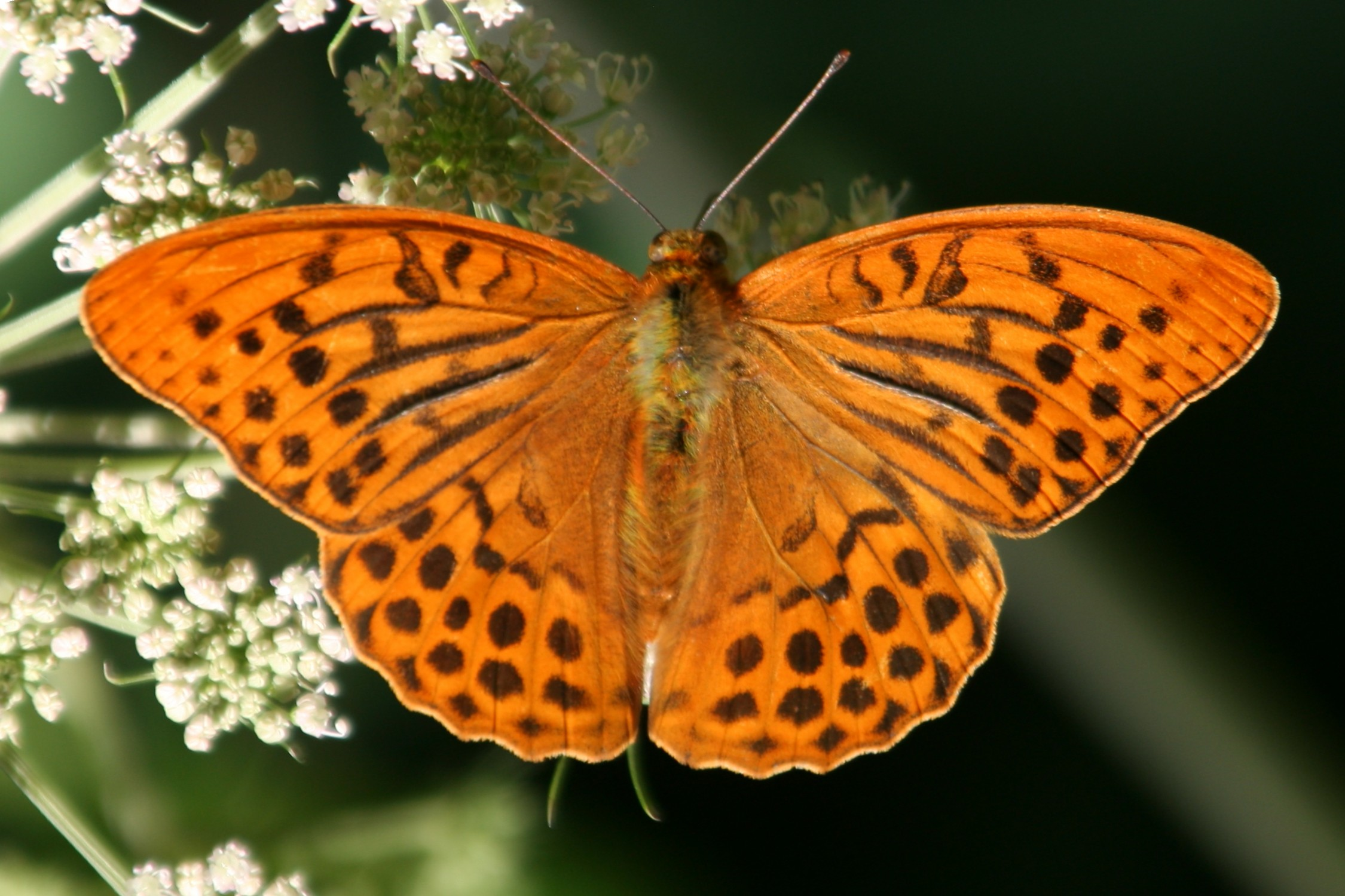 A Silver-washed Fritillary butterfly (Argynnis paphia), photographed near a forest track in Weinsberg